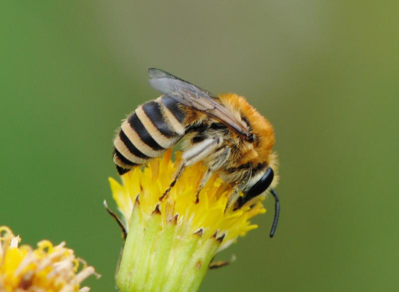 Colletes fodiens. Location: The Netherlands - Ermelo - Ermelosche Heide